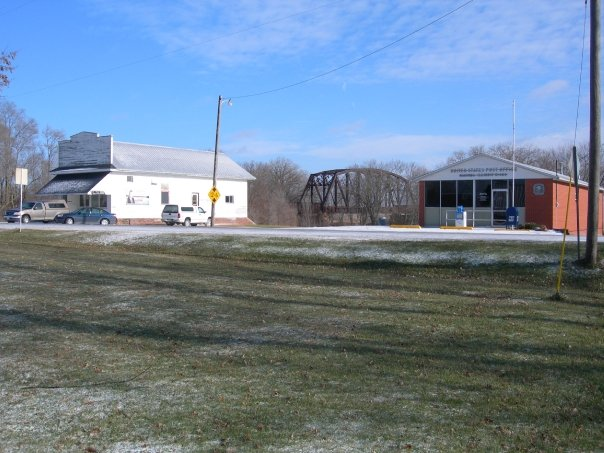 Downtown Dahinda, IL January 2009